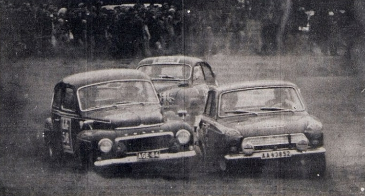 Leo Kinnunen in a Volvo PV544 (on the left), Bengt Söderström in a Ford Cortina GT (on the right) and Simo Lampinen in a Saab 96 Sport (on the back) at the 1964 1000 Lakes Rally (Rally Finland).